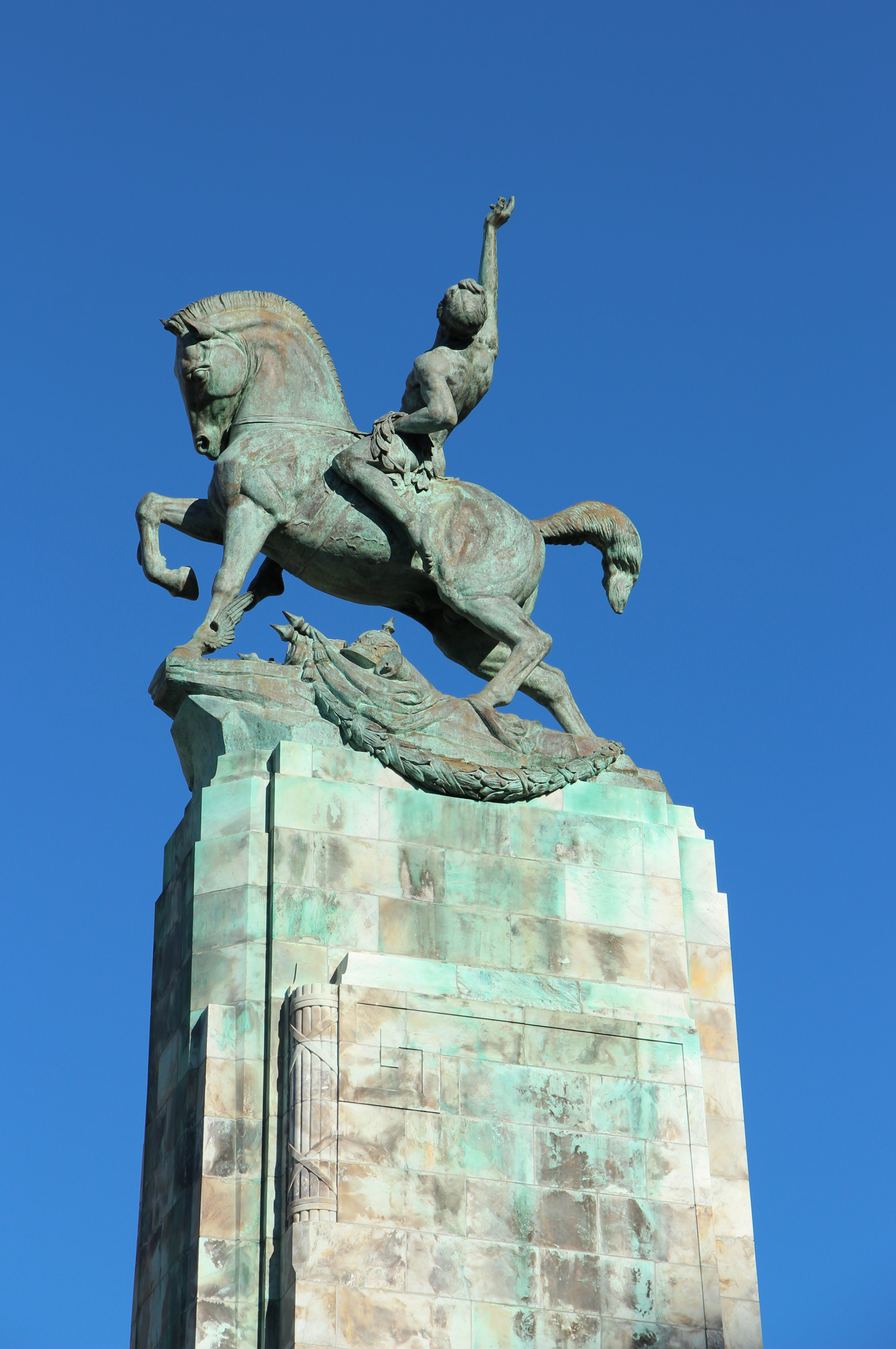 Cenotaph. Wellington, New Zealand